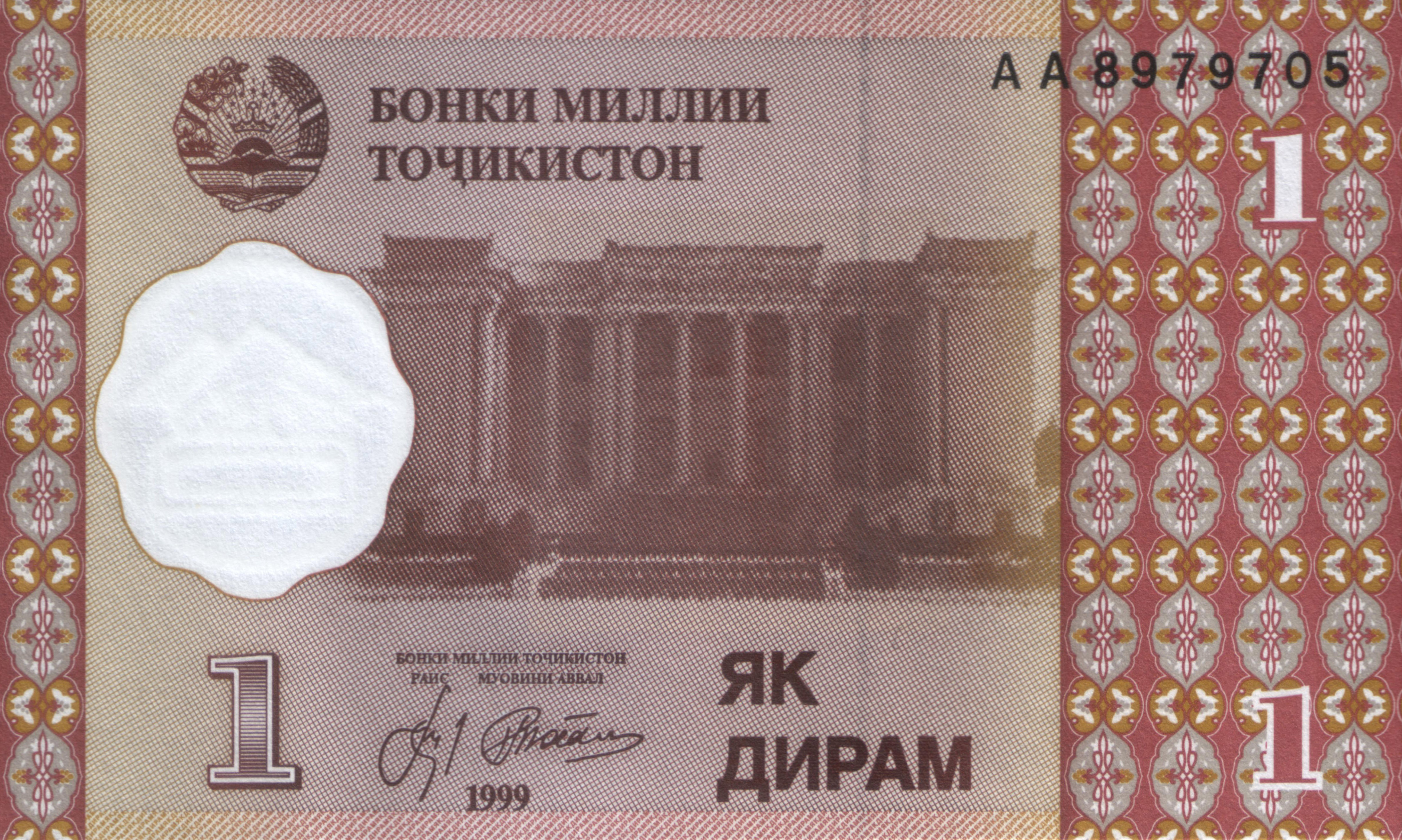 1 diram of Tajikistan (19994)